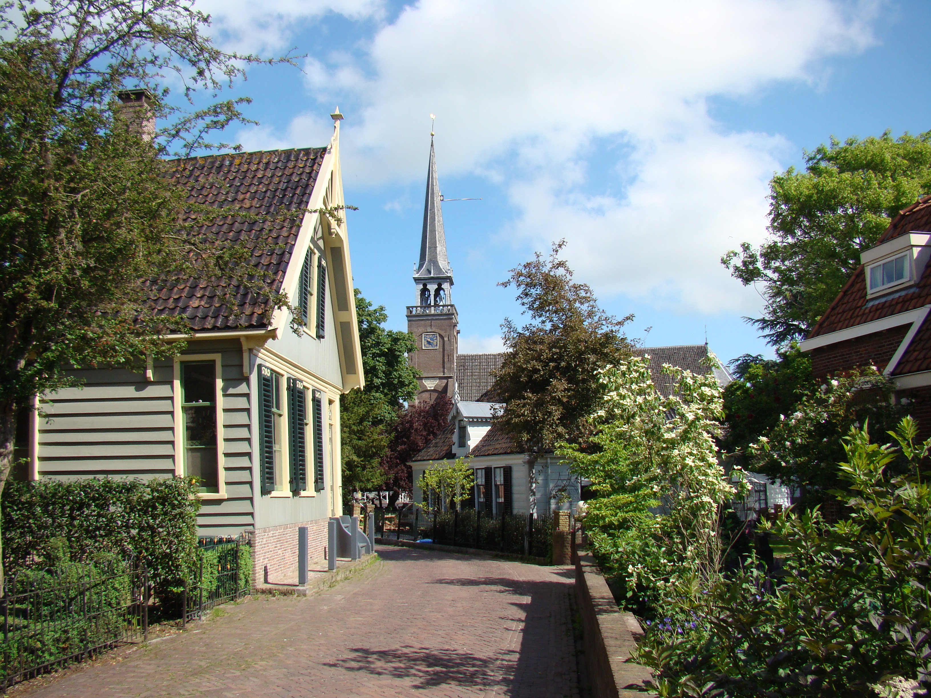 Impressions of Broek in Waterland, Netherlands Impressions of Broek in Waterland